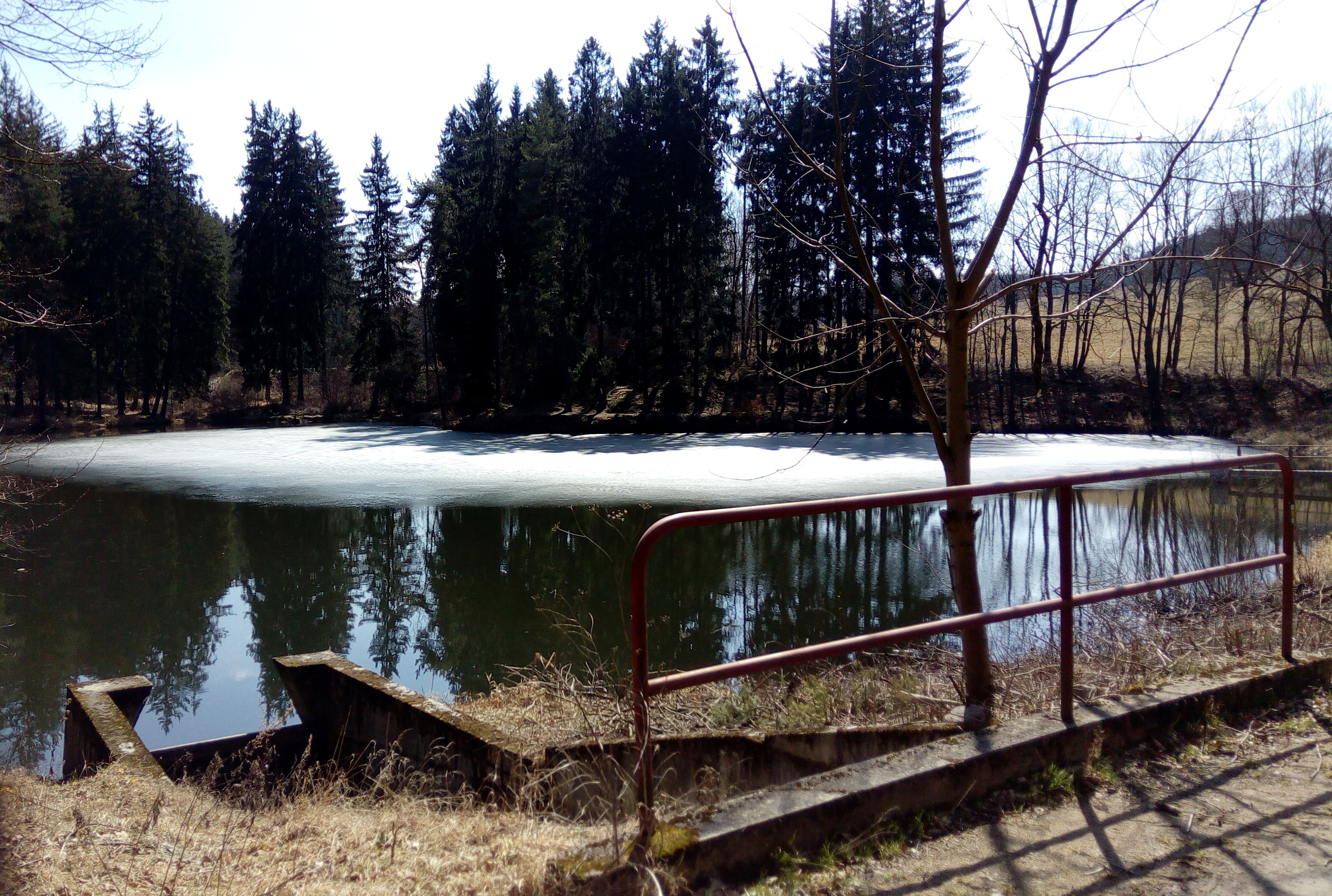 Sebevrah pond south-east of the town of Český Krumlov, South Bohemian Region, Czech Republic.